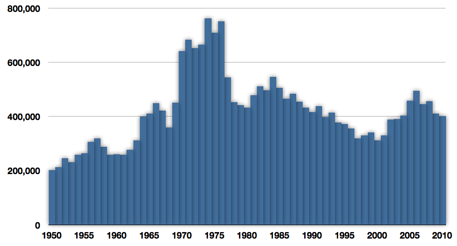 Global fisheries capture of Saithe (aka, Pollock), Pollachius virens, in tonnes per year, from 1950 to 2010 as reported by the FAO. Data source FAO fisheries